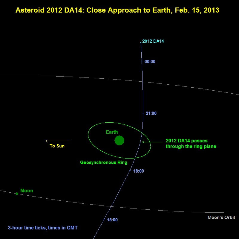 Diagram of 2012 DA14 passing the Earth on 15 February 2013.